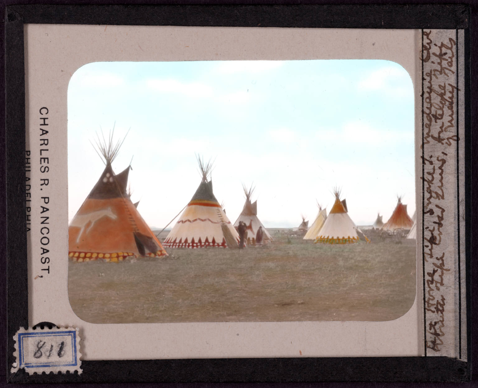 Author/Creator: McClintock, Walter, 1870-1949. Pancoast, Charles R. Date: undated Part of: Walter McClintock papers, 1874-1946. Physical Description: 1 lantern slide hand col. 8 x 10 cm. Folder or box number: Lantern slides box 9 Subjects: Indians of North America. Siksika Indians. Montana. Genre/Form: Lantern slides Cite as: Yale Collection of Western Americana, Beinecke Rare Book and Manuscript Library Repository: Beinecke Rare Book and Manuscript Library, Yale University Bibliographic Record Number: 2008173 Call Number: WA MSS S-1175 View our Record: Permalink